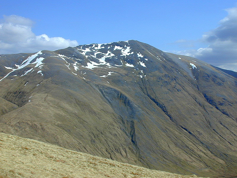 View towards A' Chralaig from An Cnapach